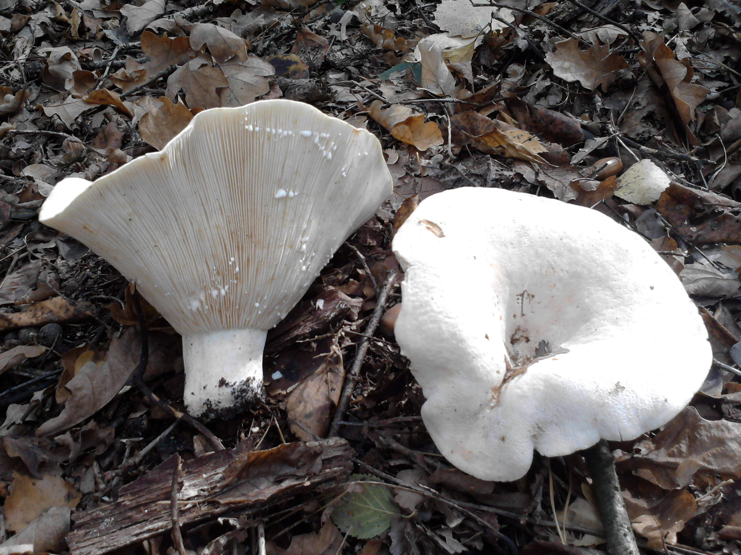 Fleecy Milk-cap